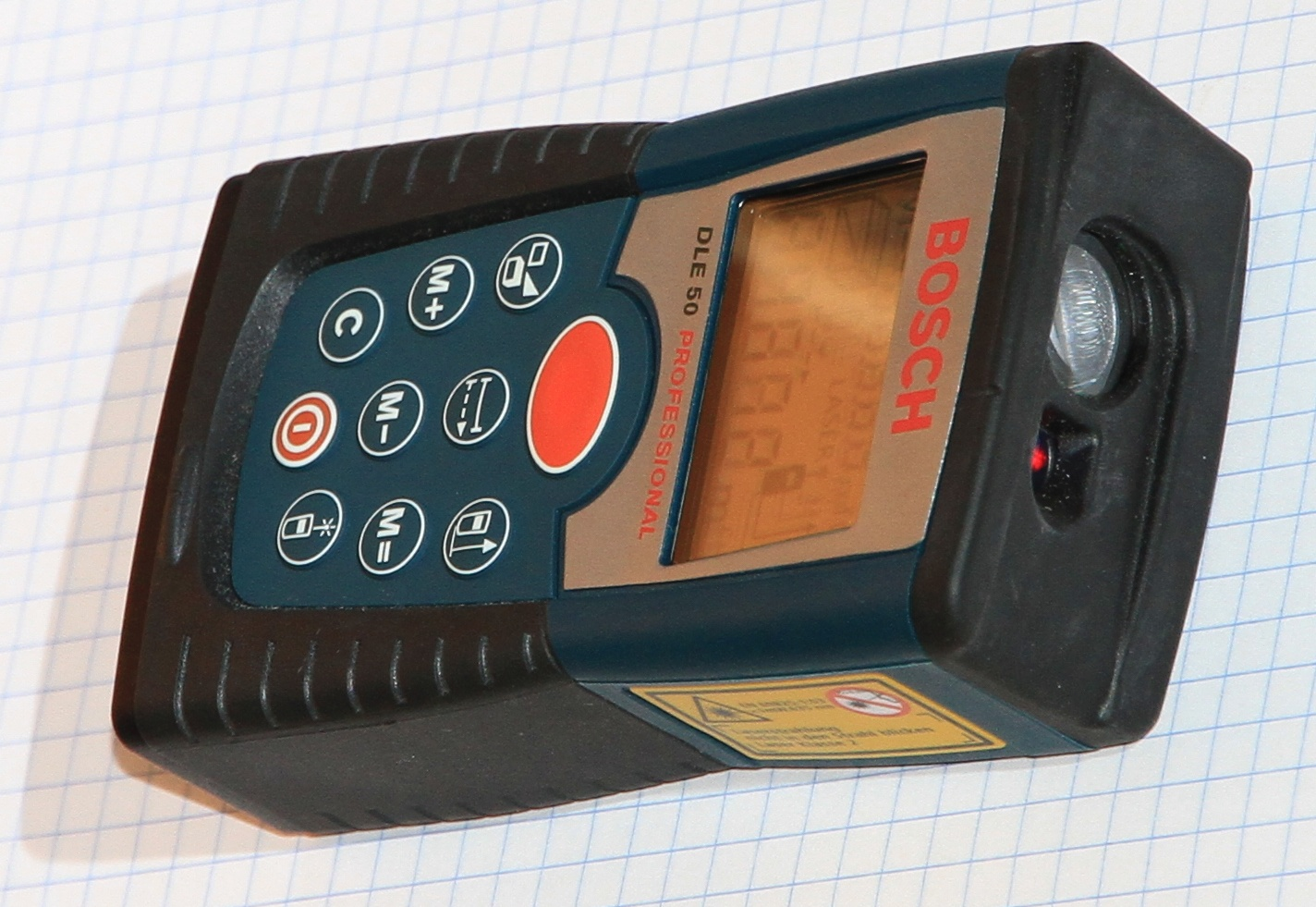 Bosch DLE 50. Laser distance meter with a precision of +/- 1.5 mm and a range of 0.05 to 50 meter. This sample was manufactured August 2007